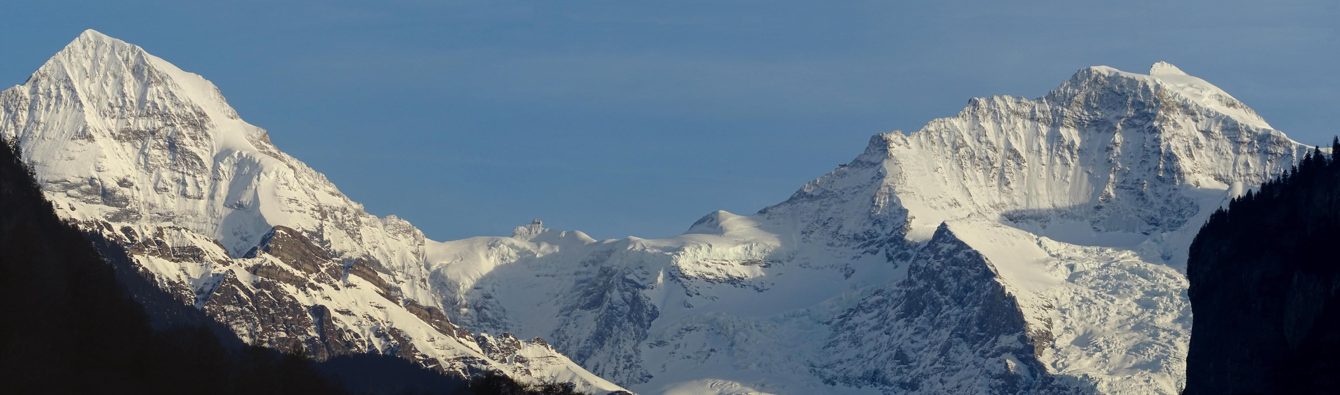 Mönch and Jungfrau, in between the Jungfraujoch with the Sphynx observatory